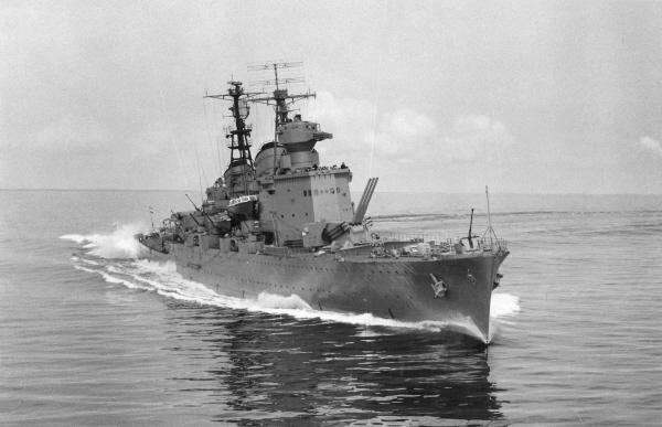 The Swedish cruiser HMS Tre Kronor efter the reconstruction.